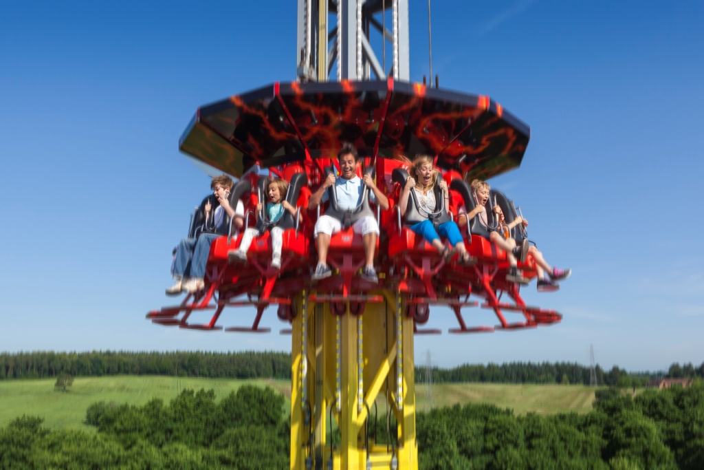 Magma Drop Tower Ride at Paultons Park